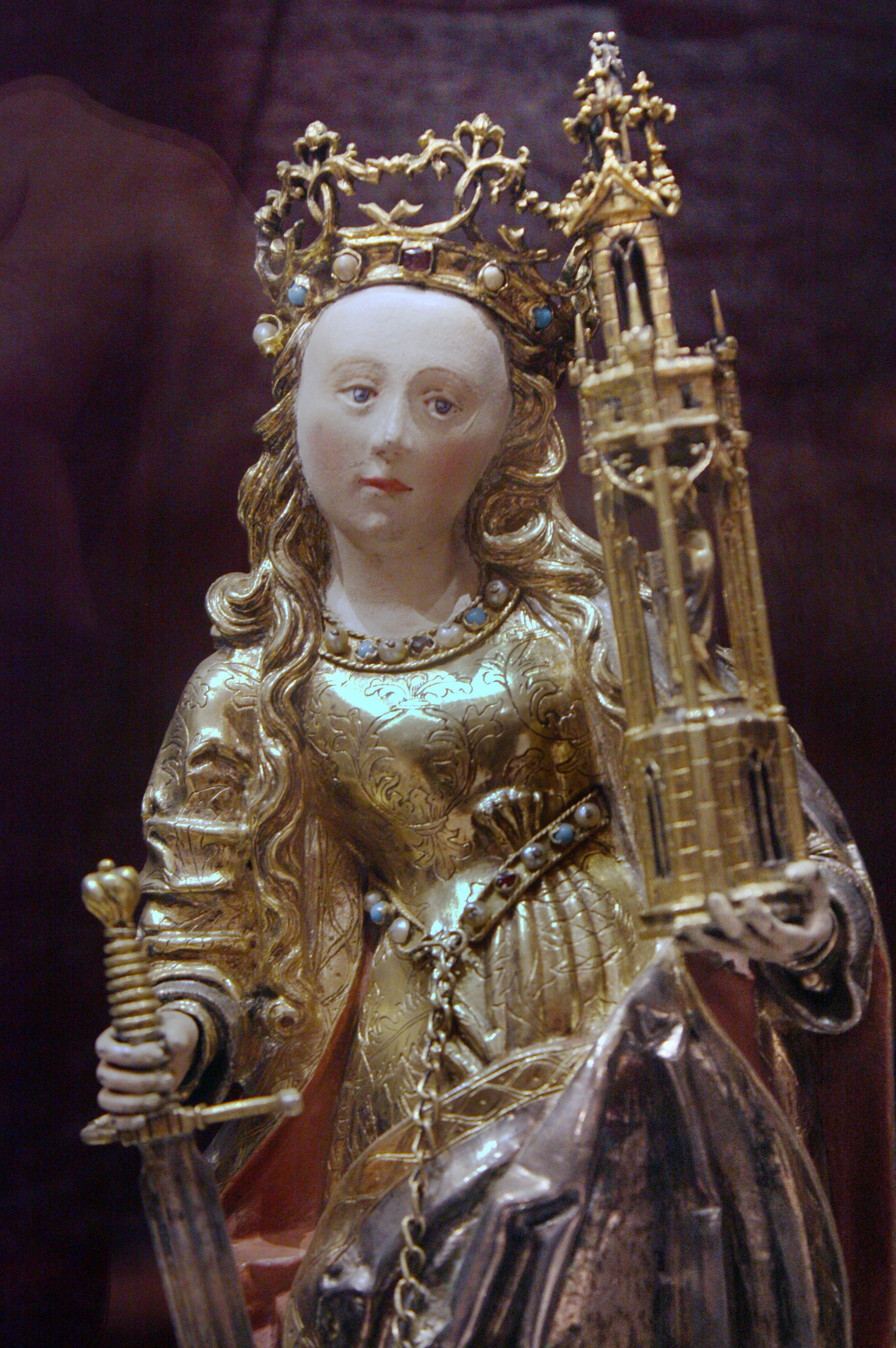 Pelplin, Diocesan Museum